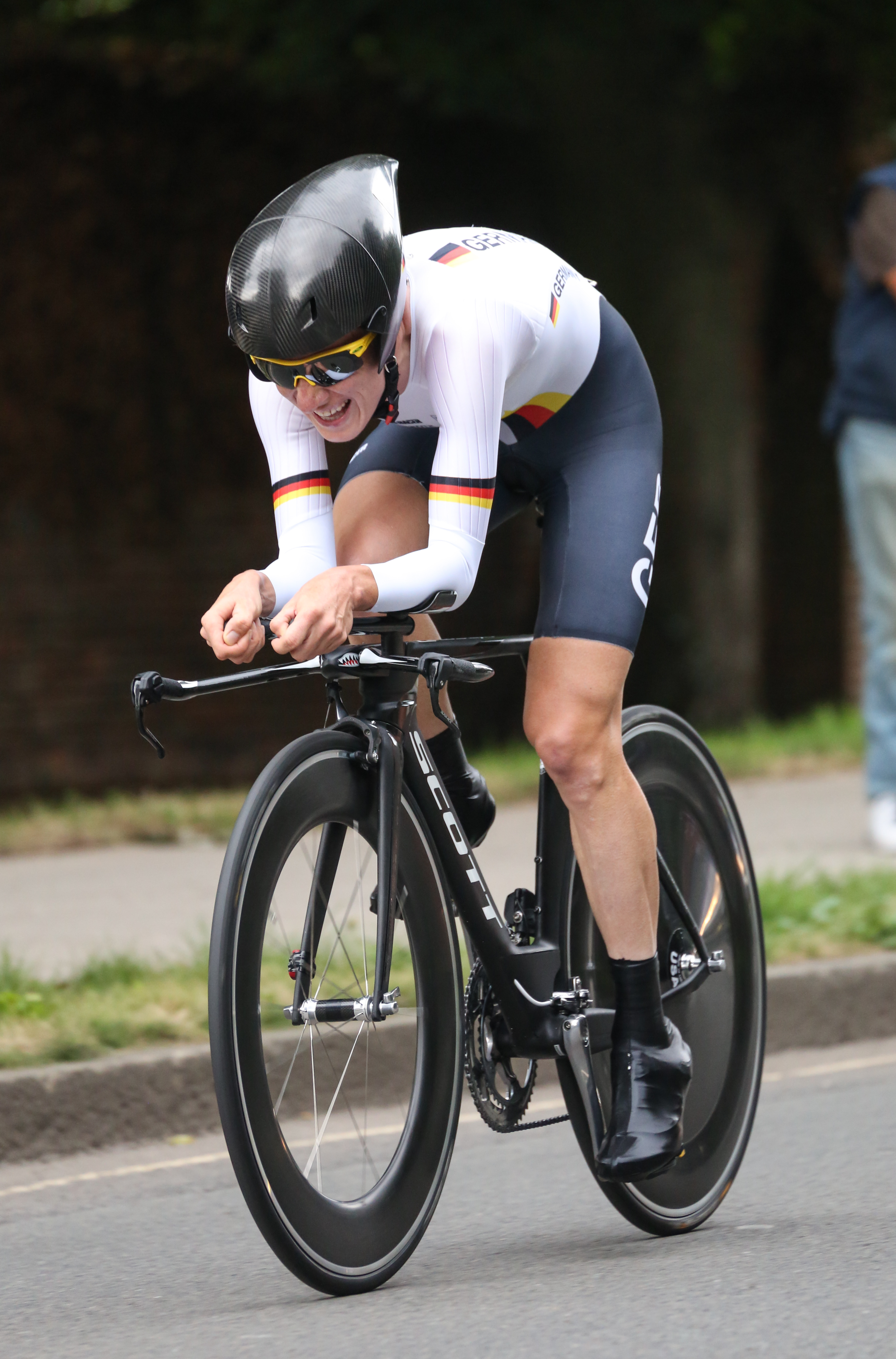 Judith Arndt competing in the London 2012 Women's Olympic Time Trial.